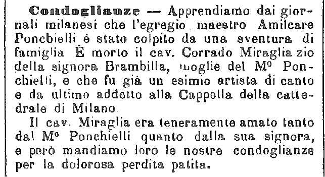 Condoglianze per la morte di Corrado Miraglia, tenore, zio della sig.a Brambilla moglie del maestro Amilcare Ponchielli.